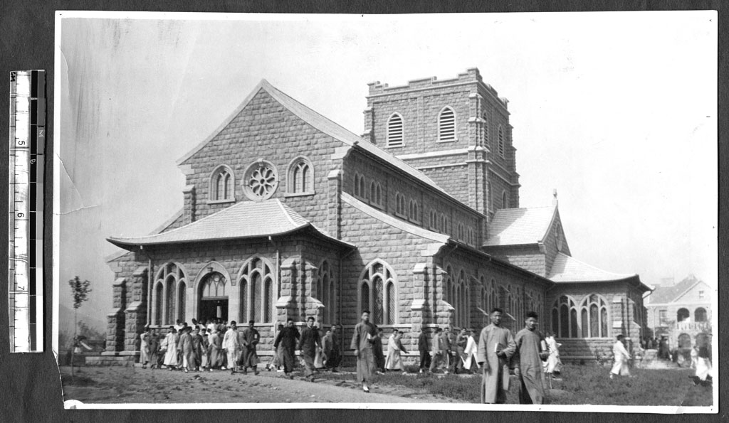 Kumler Chapel after services, Cheeloo University, Jinan, Shandong, China, ca.1924, source: YDS/RG011/414/5873/4837, Yale Divinity Library Special Collections. Uploaded to Wikimedia Commons with permission from Yale Divinity Library.